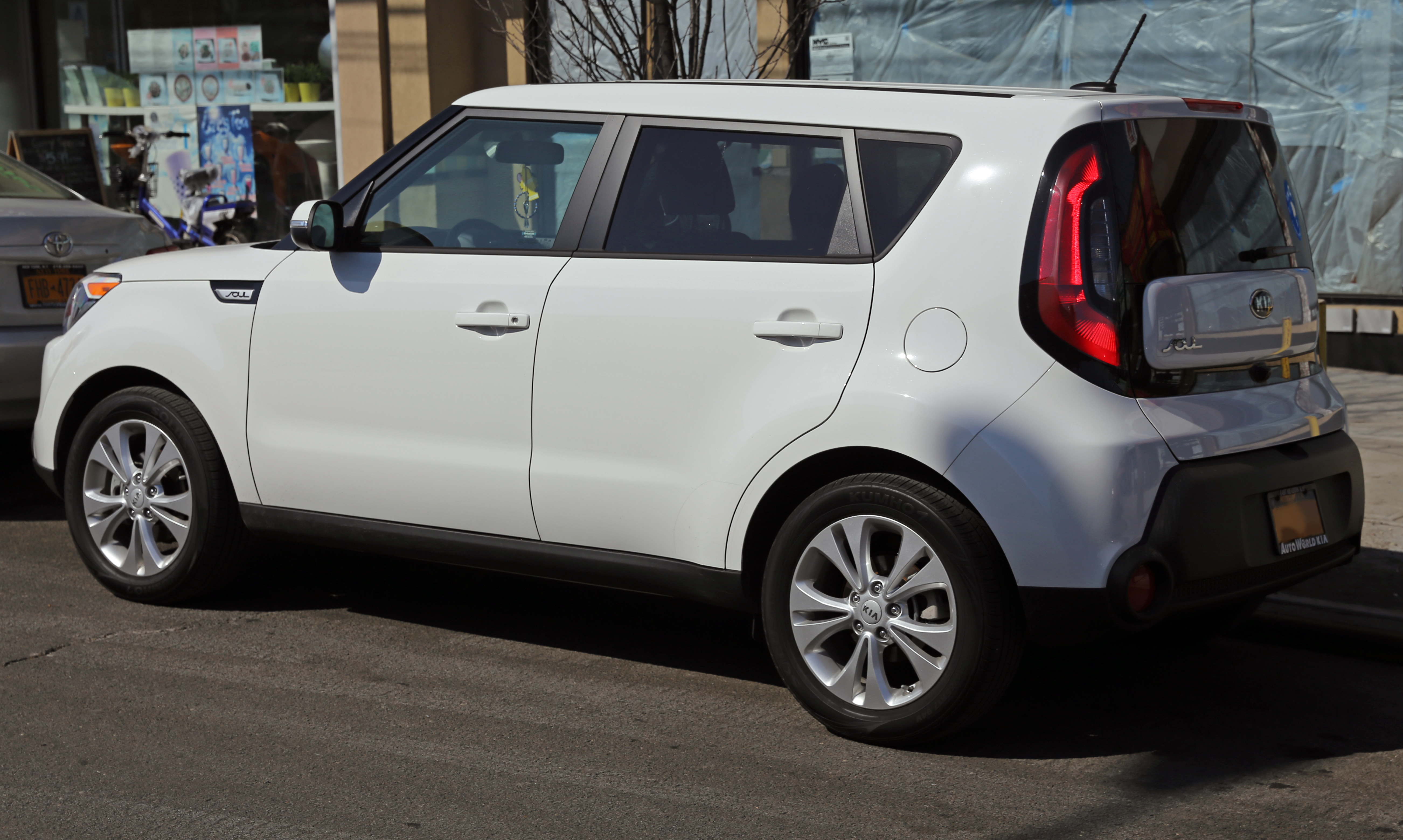 Rear view of the 2014 Kia Soul Plus.